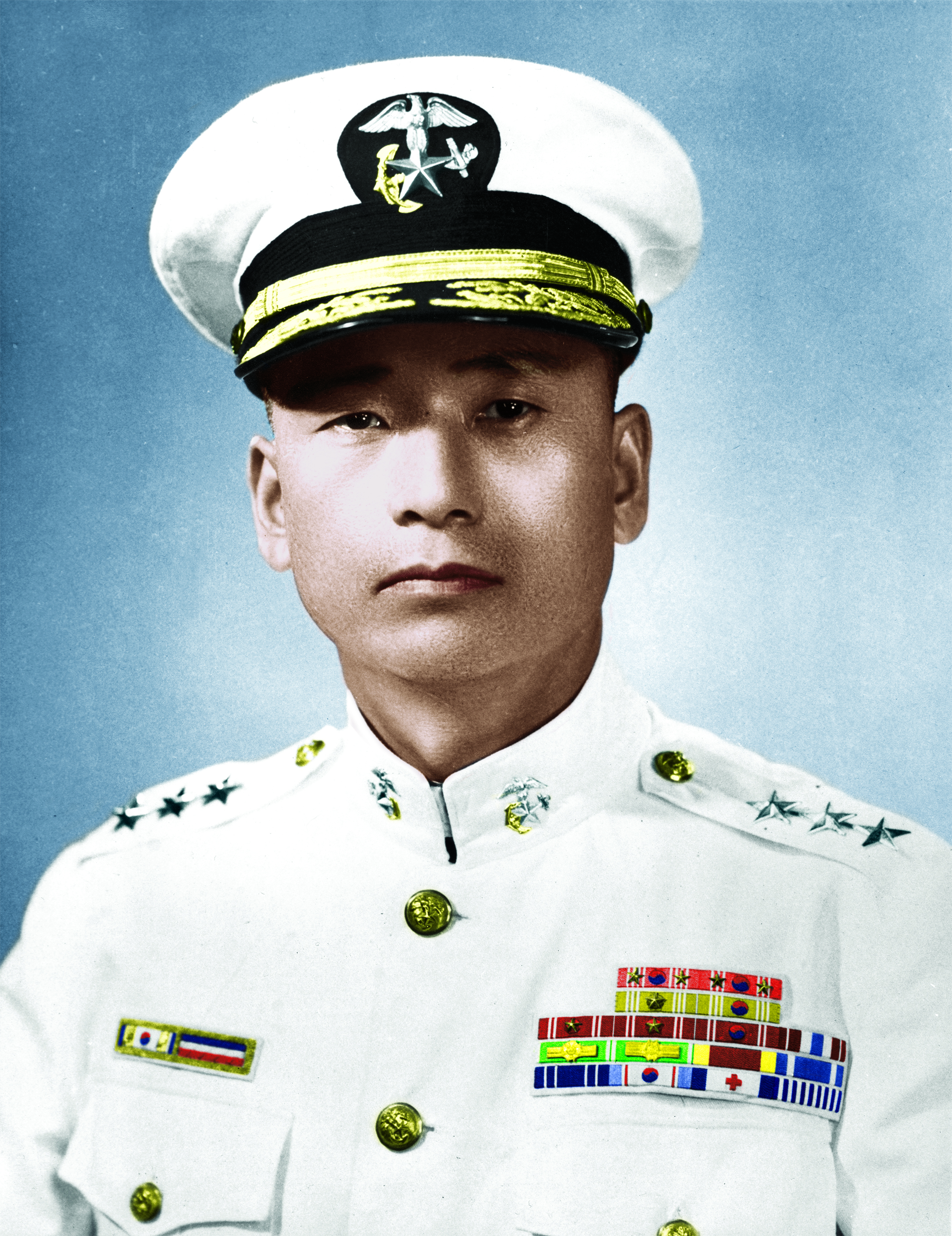 Founder and First Commandant of the Republic of Korea Marine Corps, Lieutenant General Shin Hyun-joon.